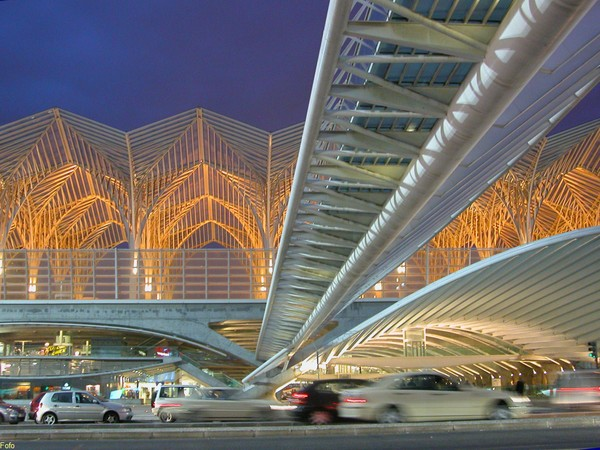 Gare do Oriente train station, Lisbon, Portugal